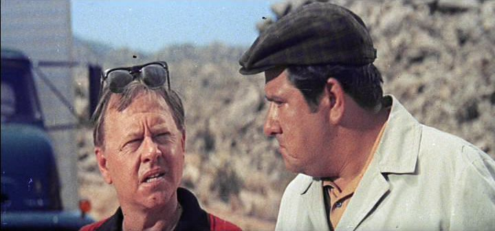 It's a Mad, Mad, Mad, Mad World (1963). L-R: Mickey Rooney and Buddy Hackett